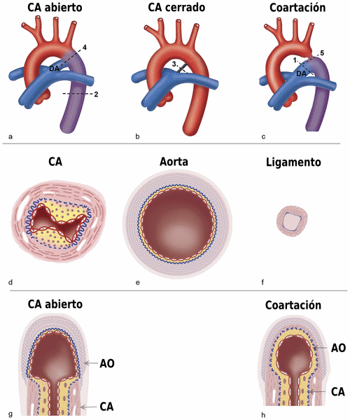 Anatomy of DA and the adjacent arteries. (a) A patent DA is found in the fetus before respiration starts. Oxygen-rich blood (in red) from the placenta passes though the aorta. Oxygen-poor blood from the fetus (in blue) passes the DA entering the descending aorta (in purple). (b) After the start of respiration the DA regresses into a ligamentum arteriosum. Aortic (red) and pulmonary (blue) circulation are disconnected. (c) In aortic coarctation, a left sided heart malformation, the DA is kept open by administration of PGE allowing blood to enter the systemic circulation. Dashed lines indicate the plane of tissue sections shown in d–h. Transverse sections of the muscular DA (d;1 in c), the elastic aorta (e;2 in a), and the ligamentum arteriosum (f;3 in b). Intimal thickening in the DA is indicated in yellow. Areas with CN are indicated in white and the wavy elastic lamellae with blue. Endothelial cells (red outlines) line the inside of the vessels. Longitudinal sections through the DA (4 in a, providing Fig. 1g, and 5 in c providing Fig. 1h). (g) DA tissue and aorta tissue are merging and can be separately distinguished by their characteristic histology. (h) In coarctation, inner media and intimal thickening of the DA extend into the aorta sometimes almost encircling the lumen of the aortic arch at that site (as depicted). The aortic tissue will always be present in the roof of the coarctation.